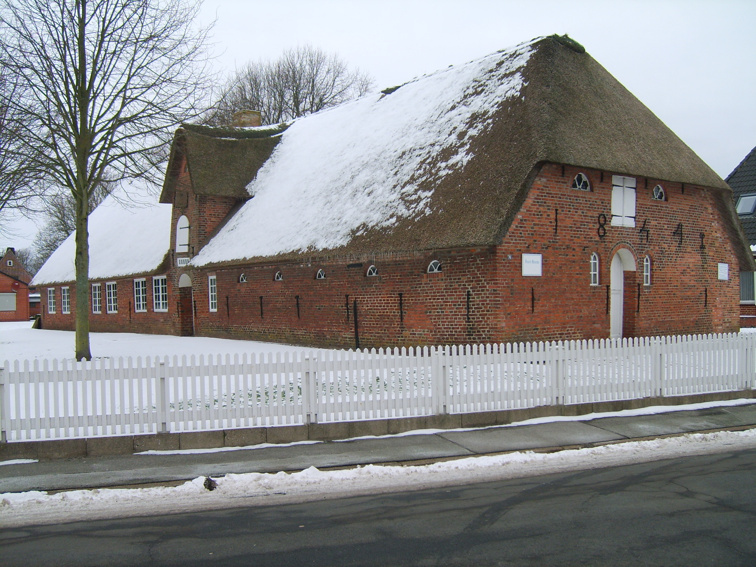 Frisian museum in Niebüll-Deezbüll, Germany